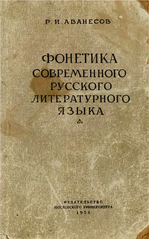 Обложка книги Р. И. Аванесова «Фонетика современного русскогог литературного языка»